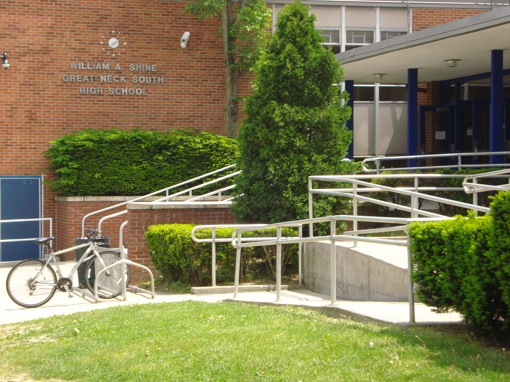 During my visit to Great Neck, I took a photo of Great Neck South High School on May 22, 2009.